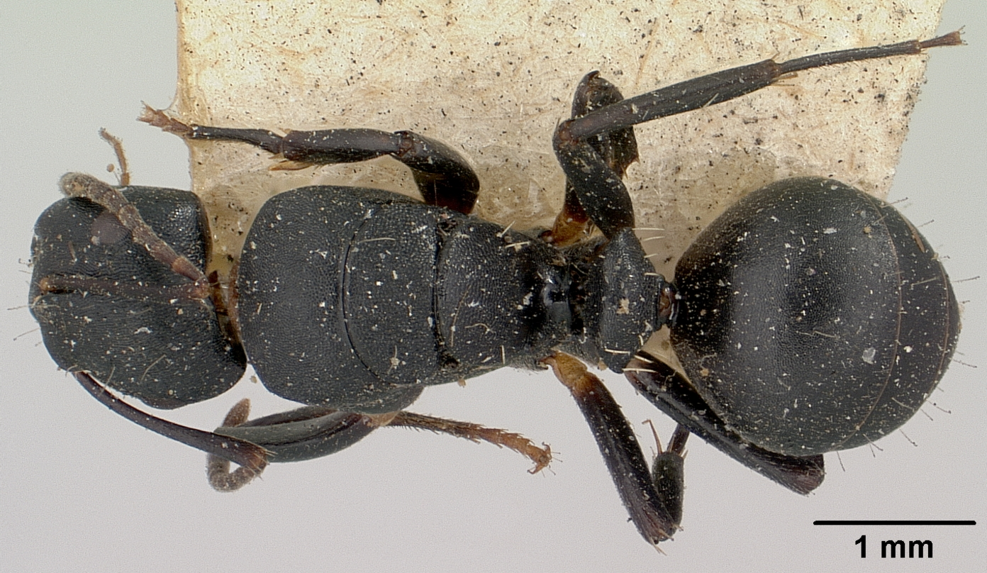 Dorsal view of ant Camponotus echinoploides specimen casent0101379.